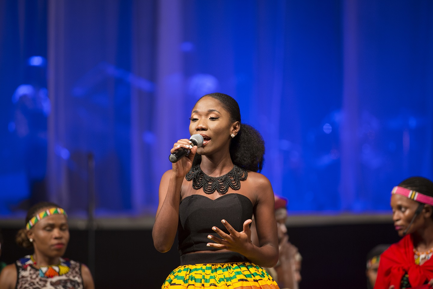 Yaya yaya